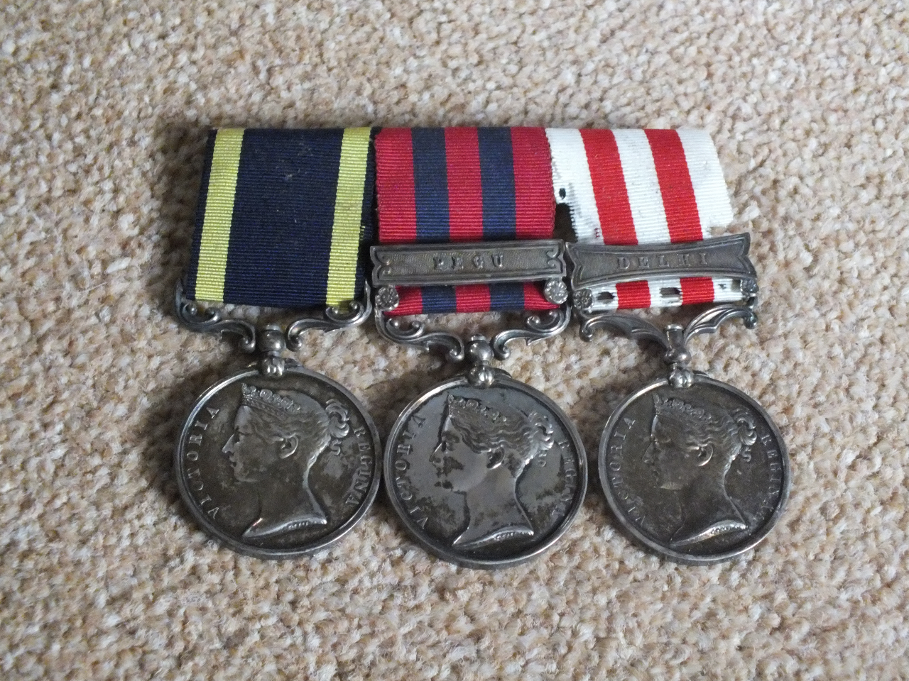 This is a picture of Lieutenant Willoughby's Campaign medals, which was taken by me. The medals are owned by the family.The picture should go with the article on George Willoughby (soldier)